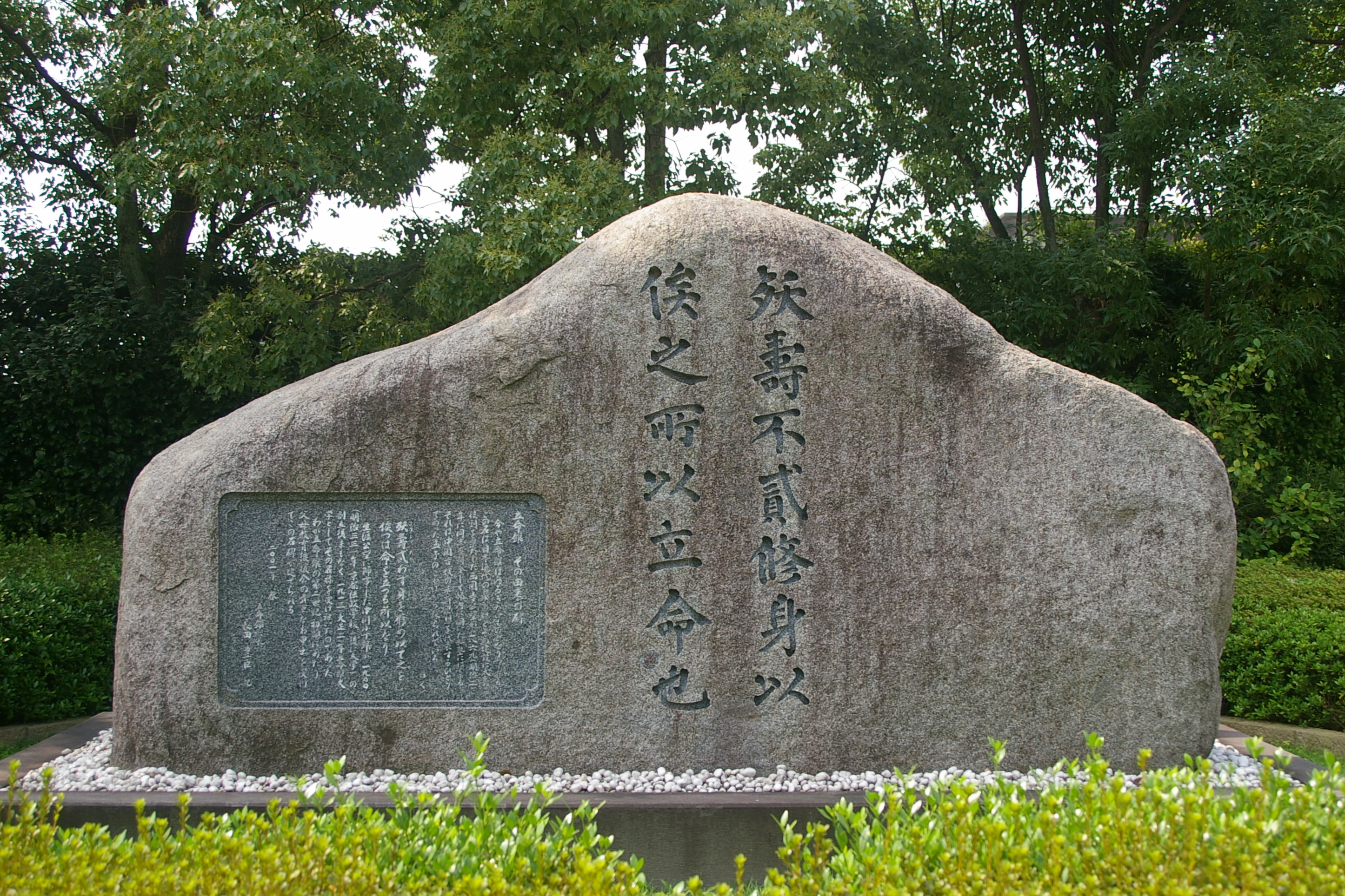 A monumental stone explaining the origin of the name "Ritsumeikan" (based on a quotation from Mencius), erected in Kinugasa Campus, Ritsumeikan University, Kita-ku, Kyoto, Kyoto Prefecture, Japan.